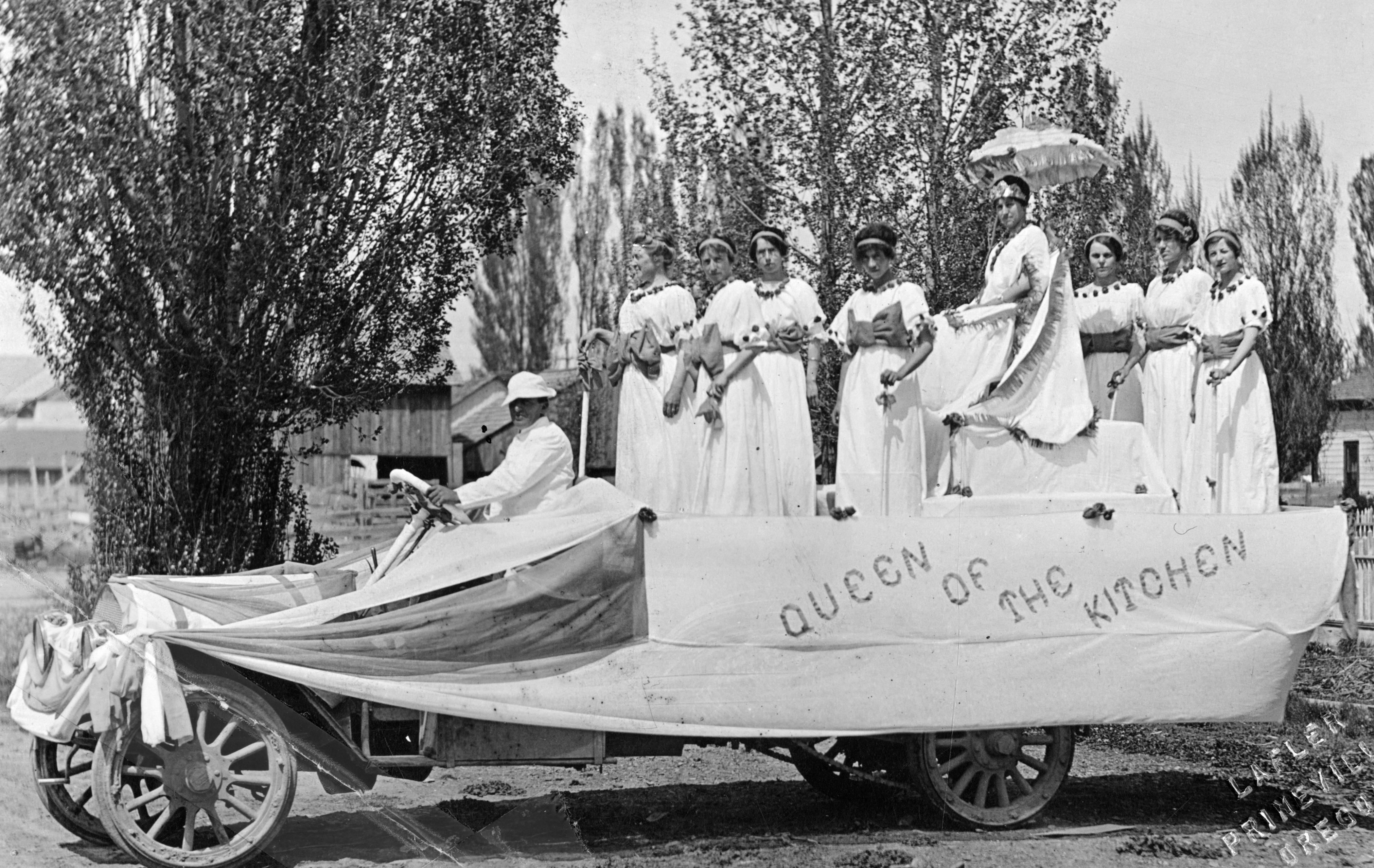 (description from OSU Archives on Flickr follows) Original Collection: 4-H Photograph Collection (P146) Item Number: P146:751 Restrictions: Please contact the OSU Archives for permissions forms or information on how to cite our collections. Click here to view our digital collections. You can find this image by searching for the item number. Click here to view Oregon State University's other digital collections. We're happy for you to share this digital image within the spirit of The Commons; however, certain restrictions on high quality reproductions of the original physical version may apply. To read more about what “no known restrictions” means, please visit the OSU Archives website .